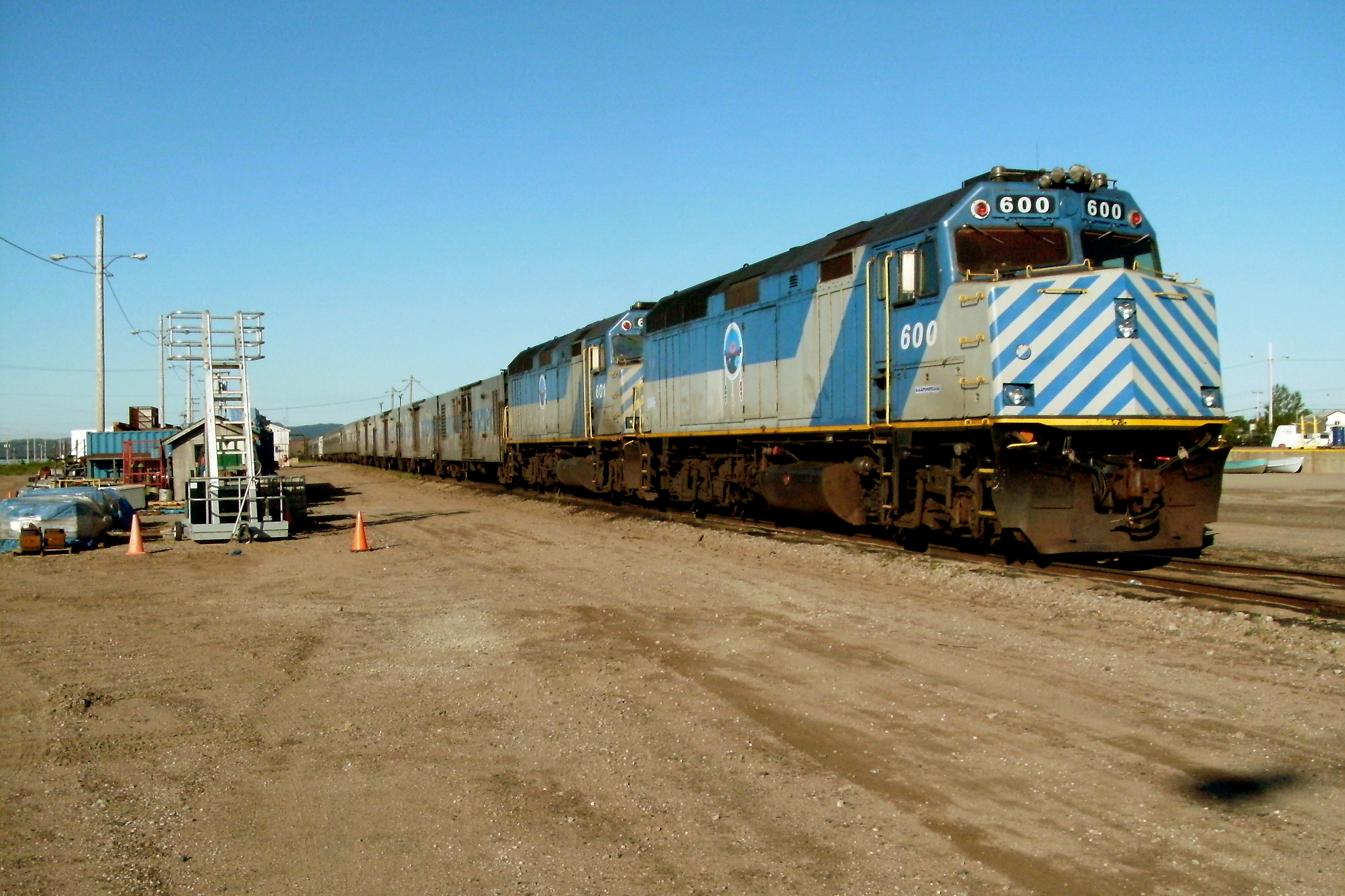 A train on the Tshiuetin rail line in Sept-Iles leaving for Schefferville.Passenger Train at Sept Iles